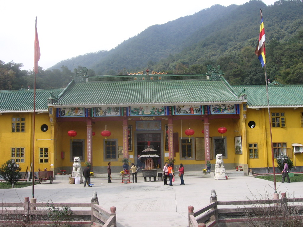 Front view of Yunmen Temple near Shaoguan, Guangdong, China. 公有领域